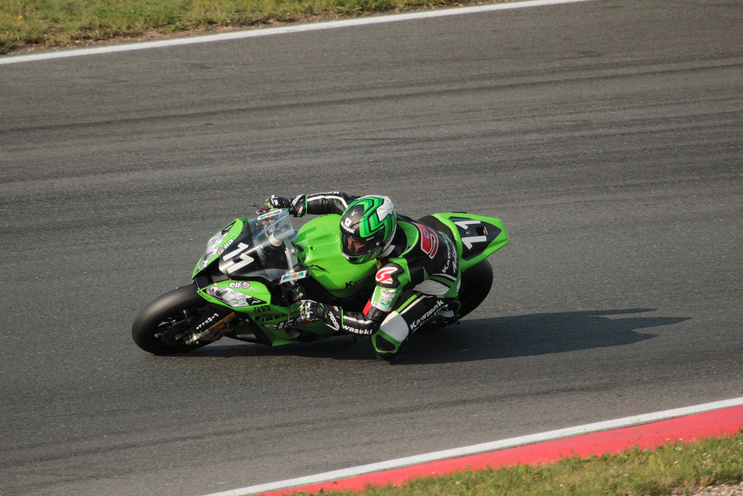 Fabien Foret at Oschersleben in 2014, FIM Endurance World Championship